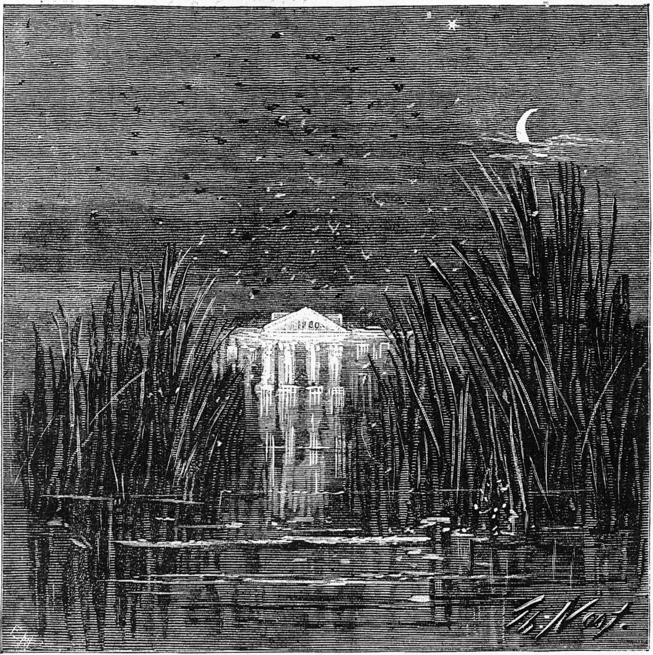 A spectral White House, with the date 1880 in its pediment, rises out of a swamp on a night filled with bats and lit by a crescent moon.